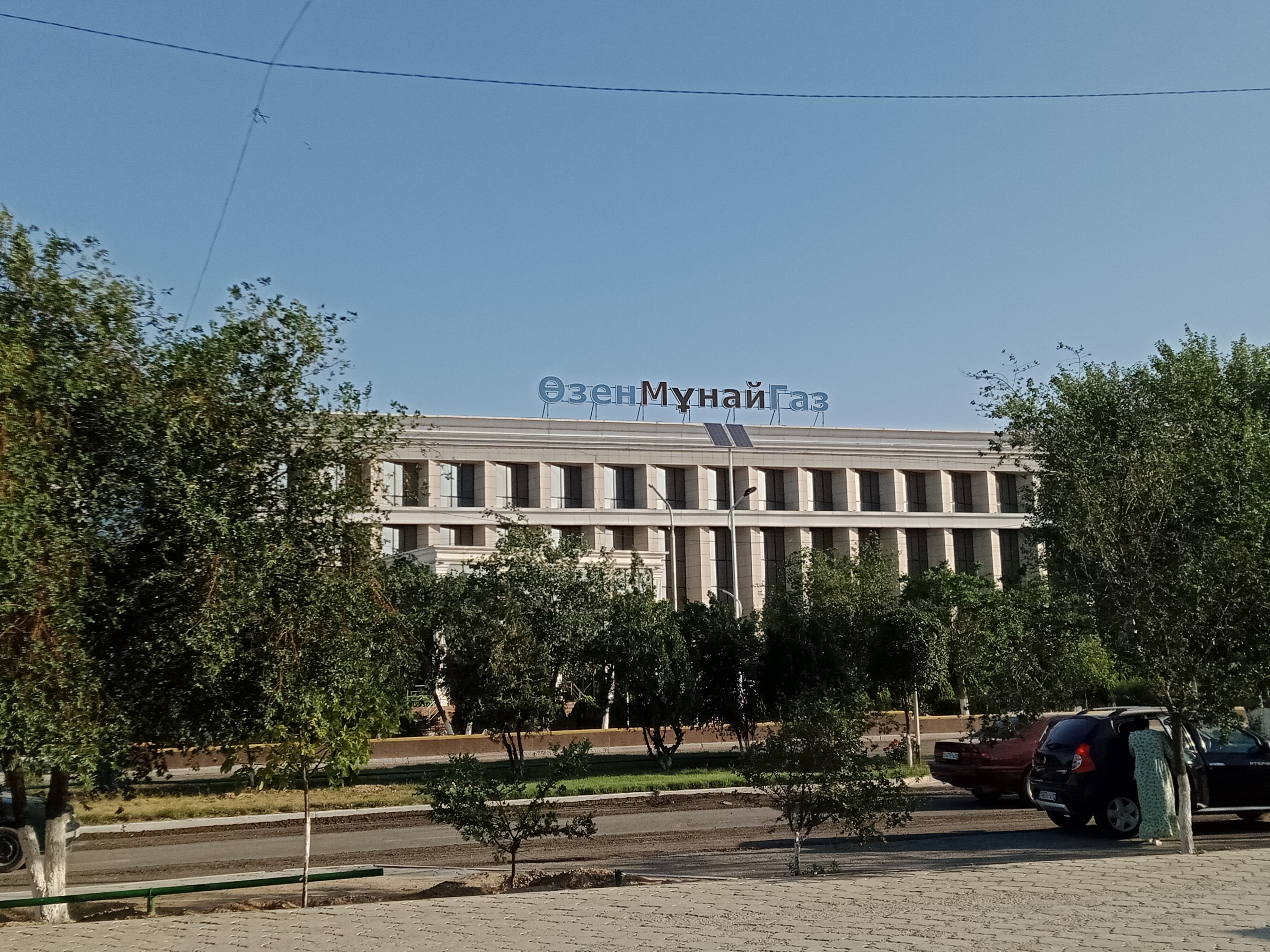 Central office JSC "Ozenmunaigaz" in Zhanaozen